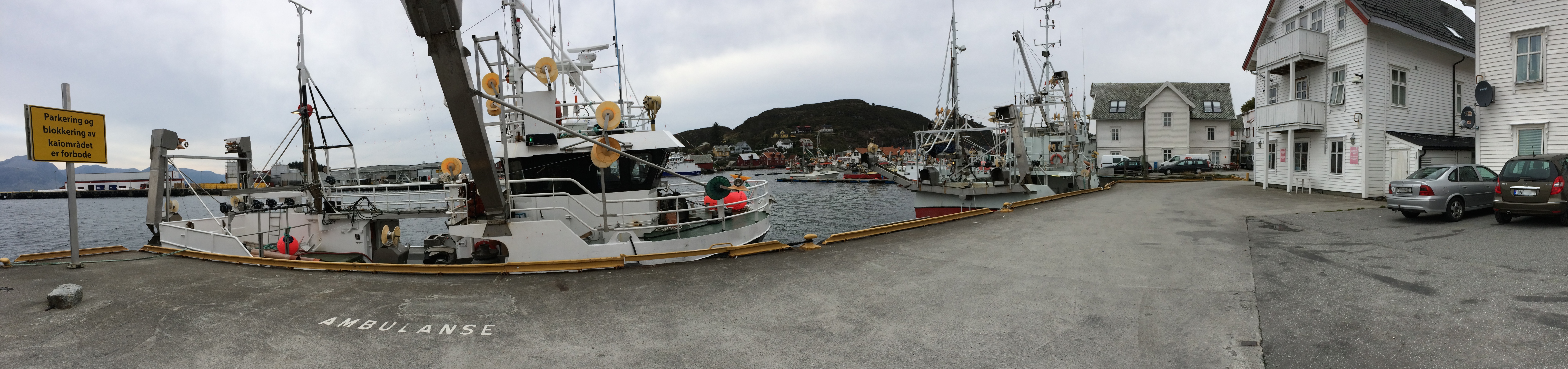 Fold-out-panorama of Kalvåg harbour in Bremanger municipality in Sogn og Fjordane County, Norway. (iPhone panoramic photo, distortion may occur in details and continuity.)